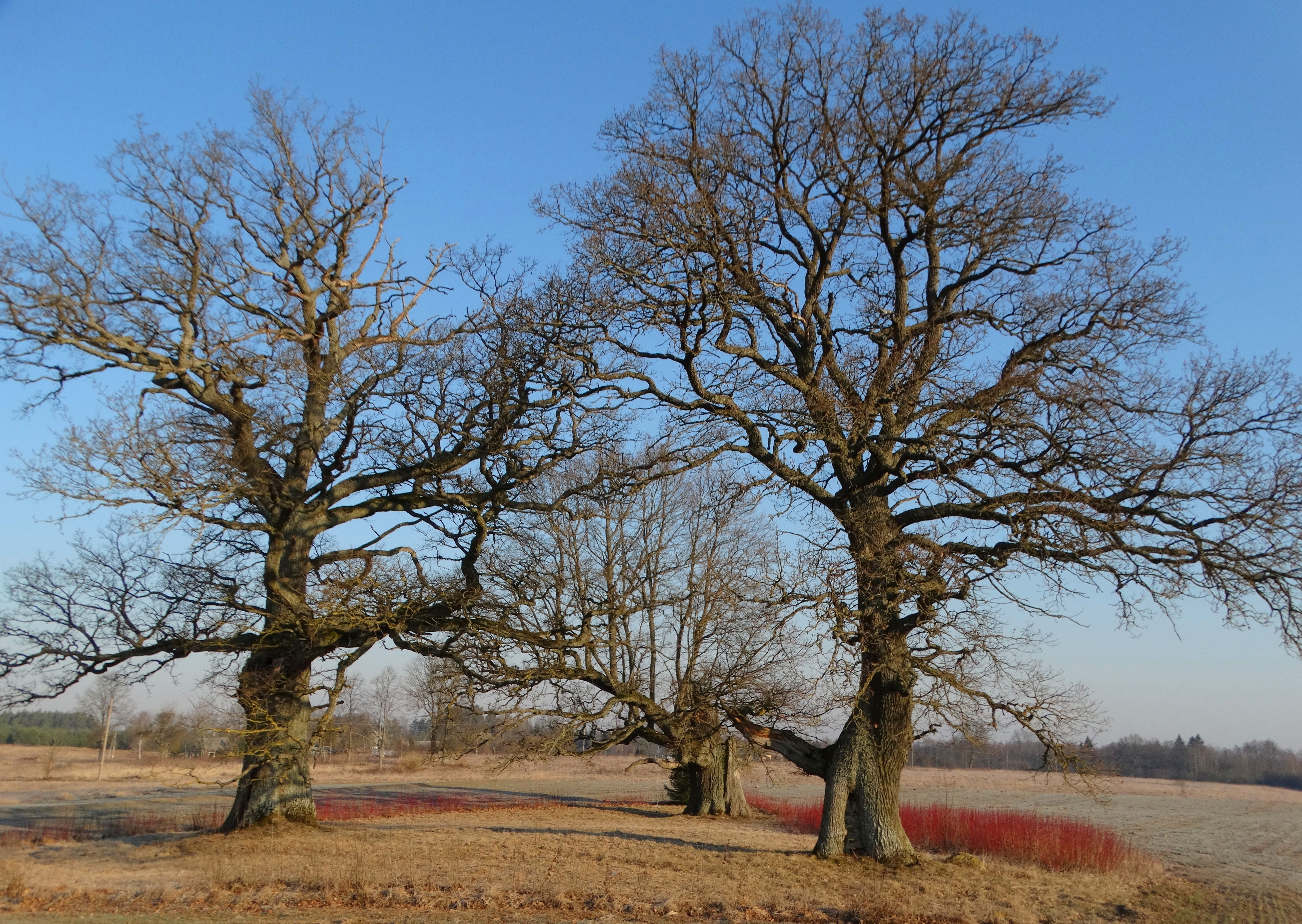 Oaks, Pamockė, Šiauliai district, Lithuania